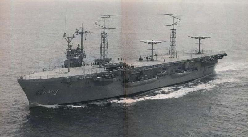 USS Annapolis (AGMR-1), underway off the coast of Vietnam